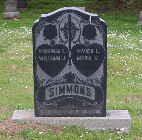 Myra V. Simmons was a California suffragist. She is buried in Cypress Lawn cemetery in San Bruno, California